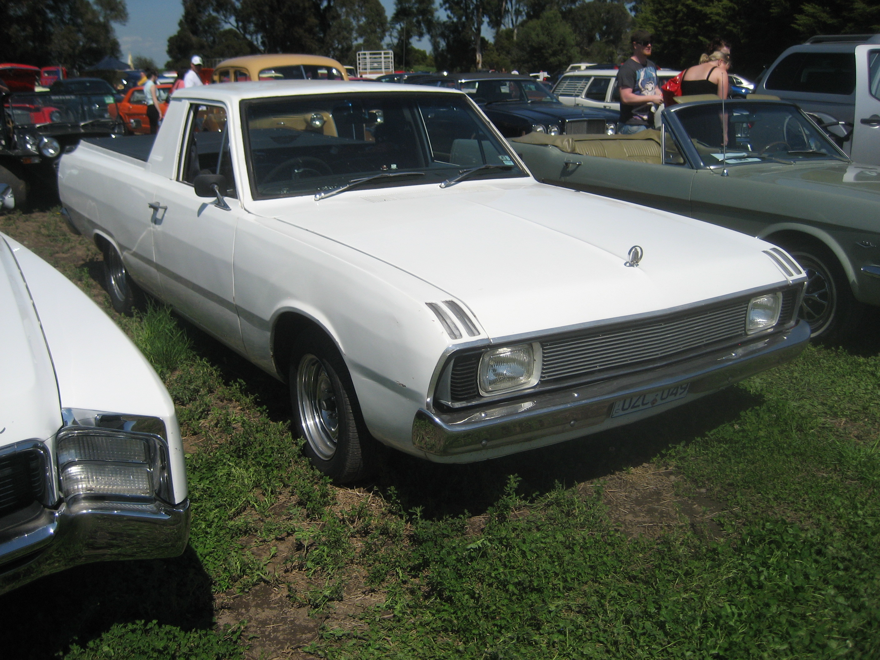 Built from August 1970-June 1971 Engines; 245 Hemi 6 or 318 V8